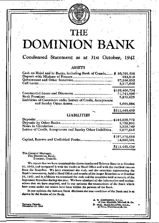 1942 Official statement of earnings for Dominion Bank